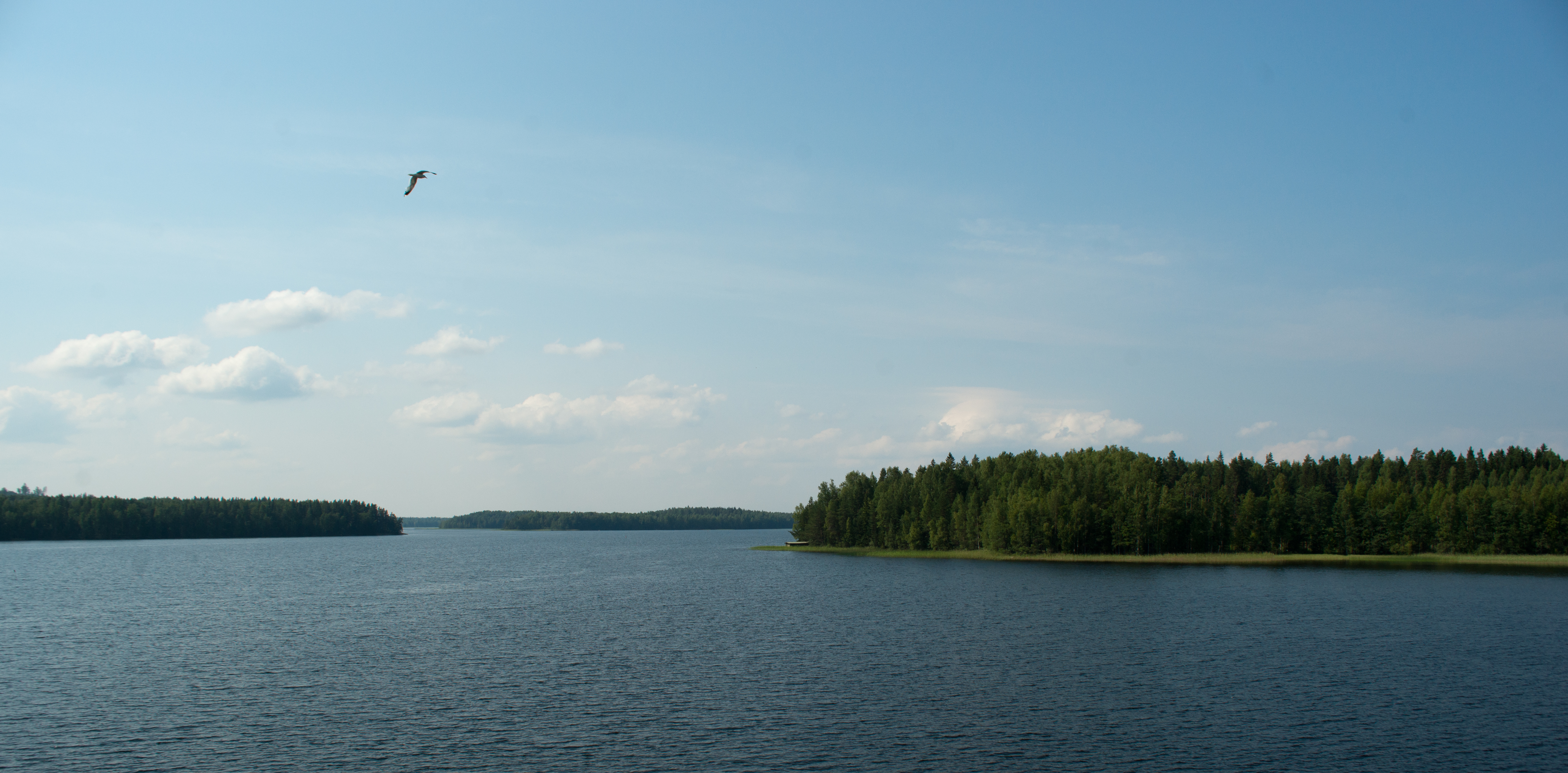 Suontee from the Marjotaipaleentie bridge, Joutsa Finland.